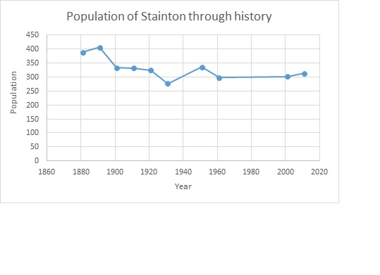 Population of Stainton from 1881-2011